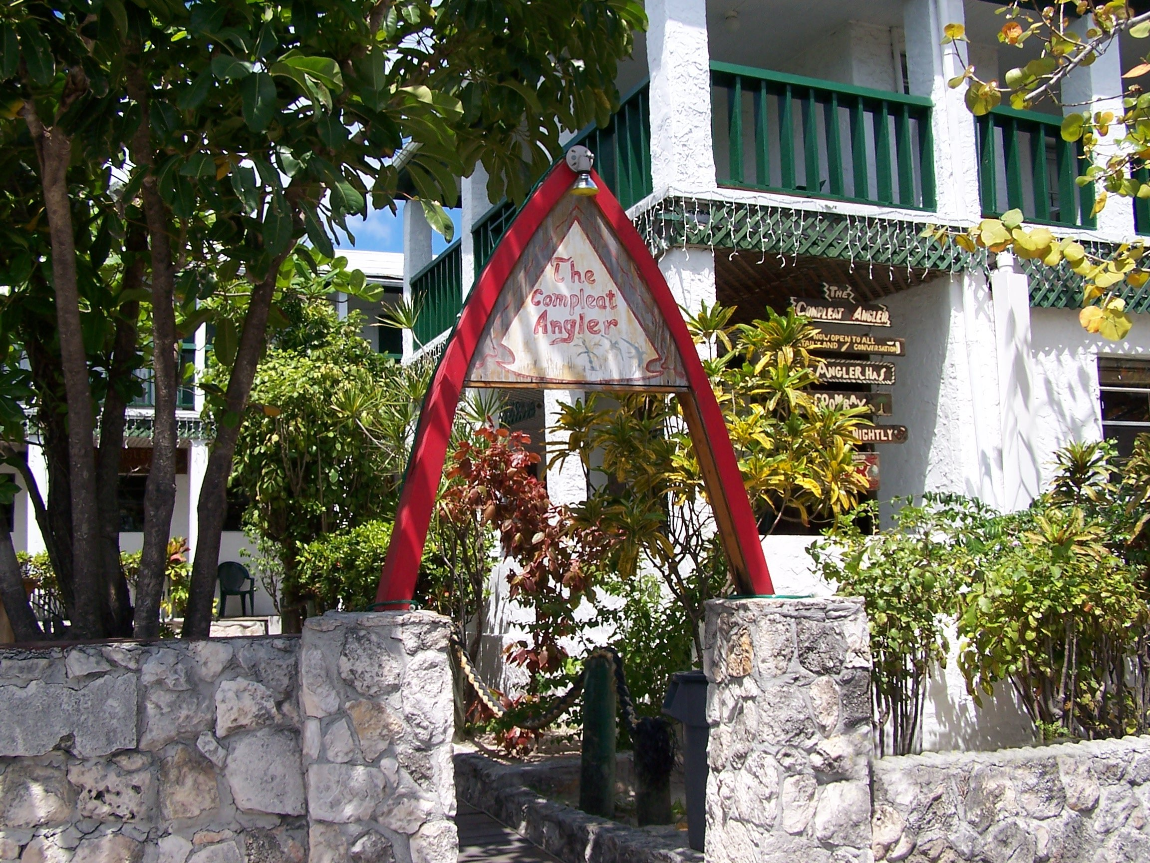 Compleat Angler Hotel sign outside. Bimini, Bahamas